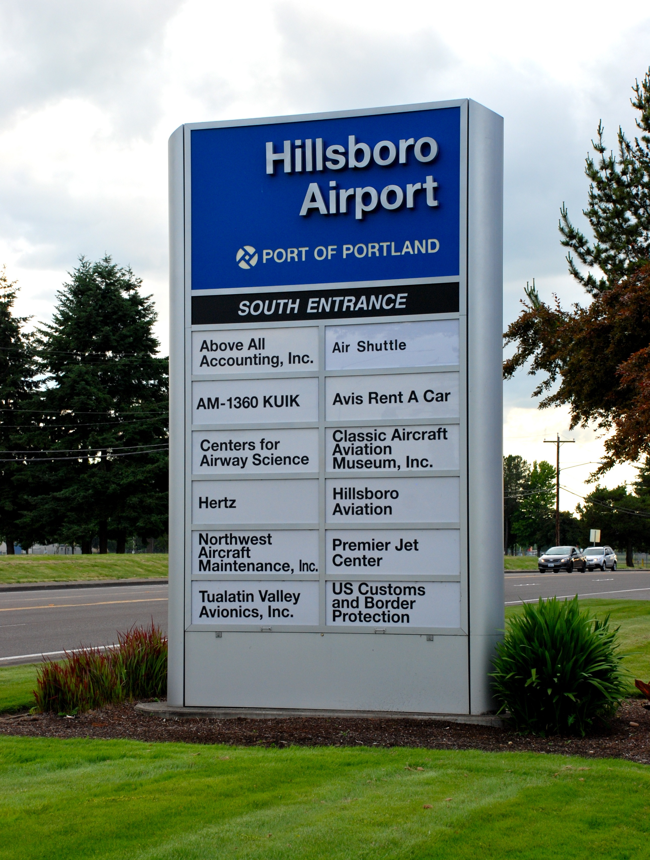 Sign at "south entrance" (the main entrance) of the Hillsboro Airport, on Cornell Road in Hillsboro, Oregon